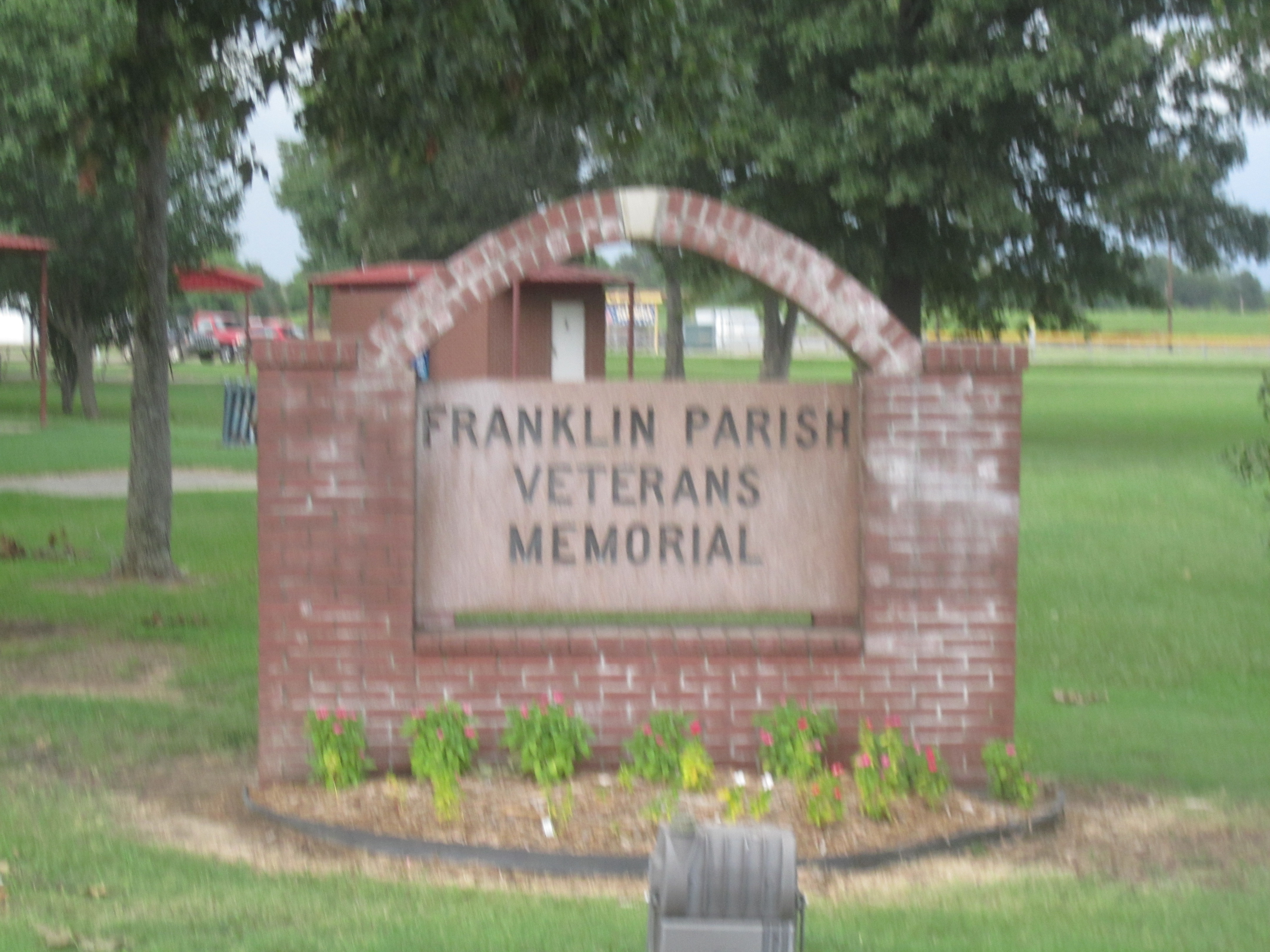 I took photo with Canon camera in Winnsboro, LA.